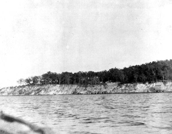 St. Johns Bluff around 1900